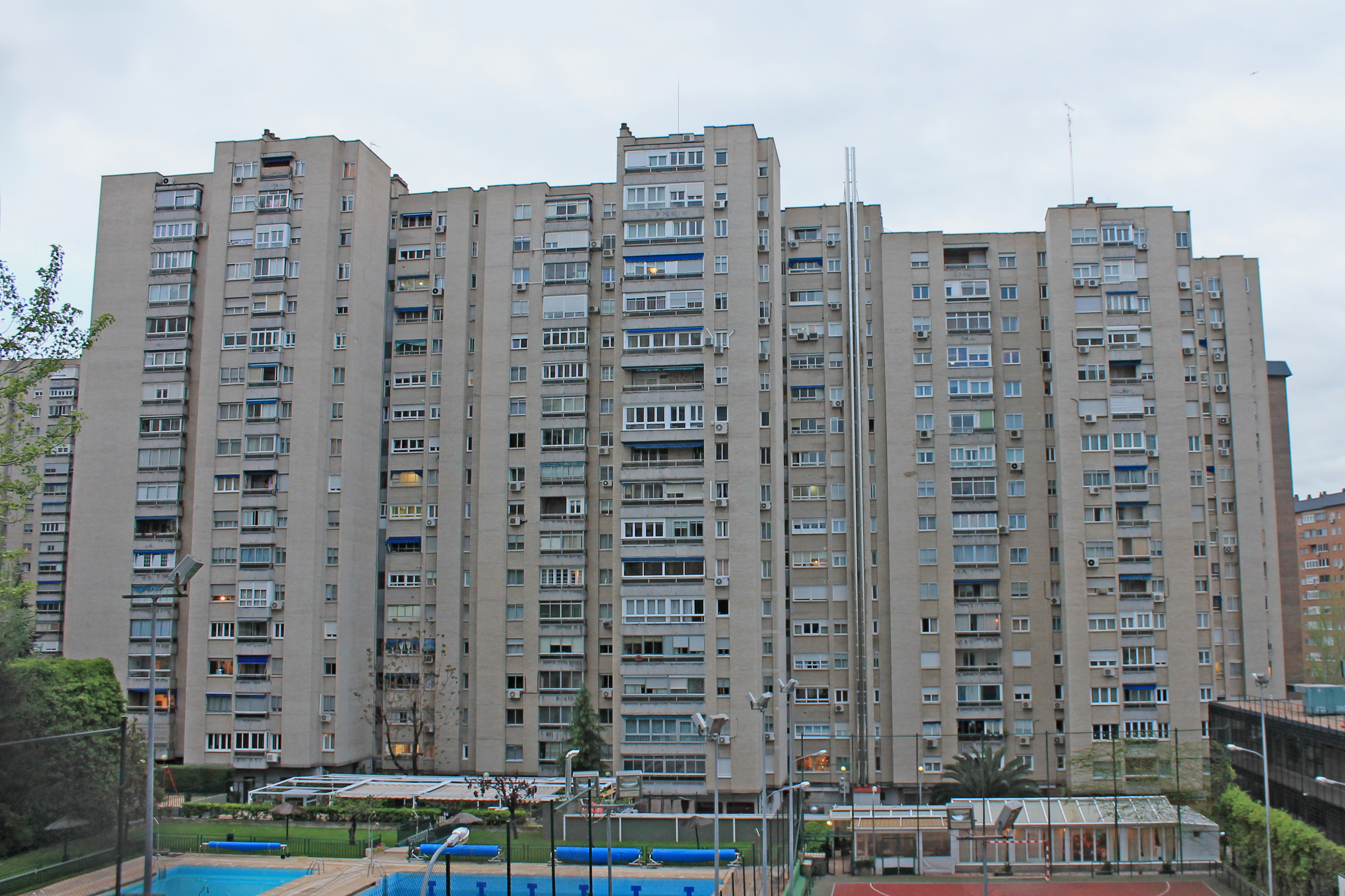 North-west façade of a housing built in the 1970's. Architect: Juan Velasco Viejo.